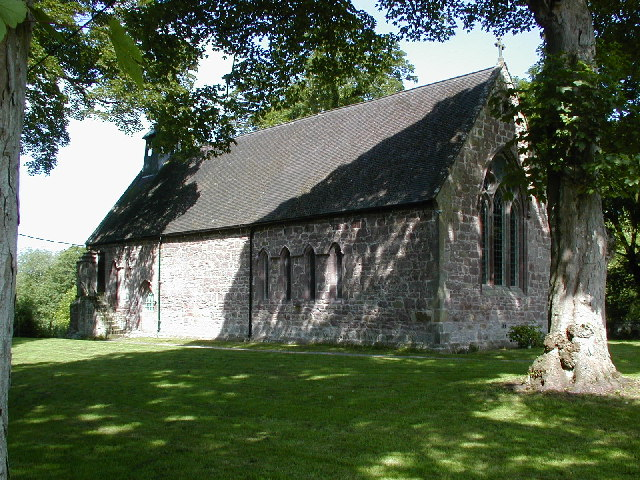 Longnor Church. Built in early 1700. The church has original box pews.